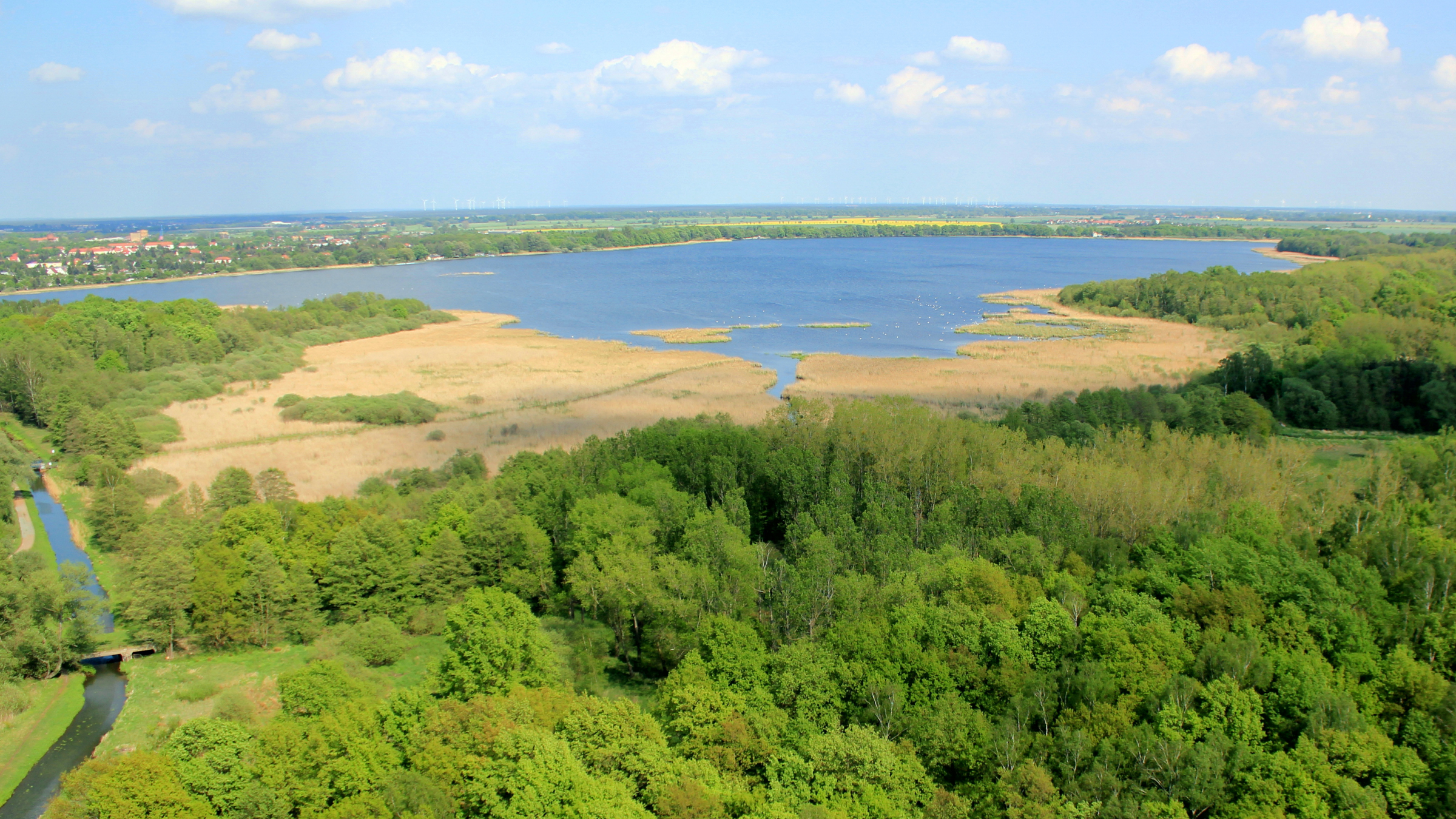 KAP (Kite Aerial Photography)